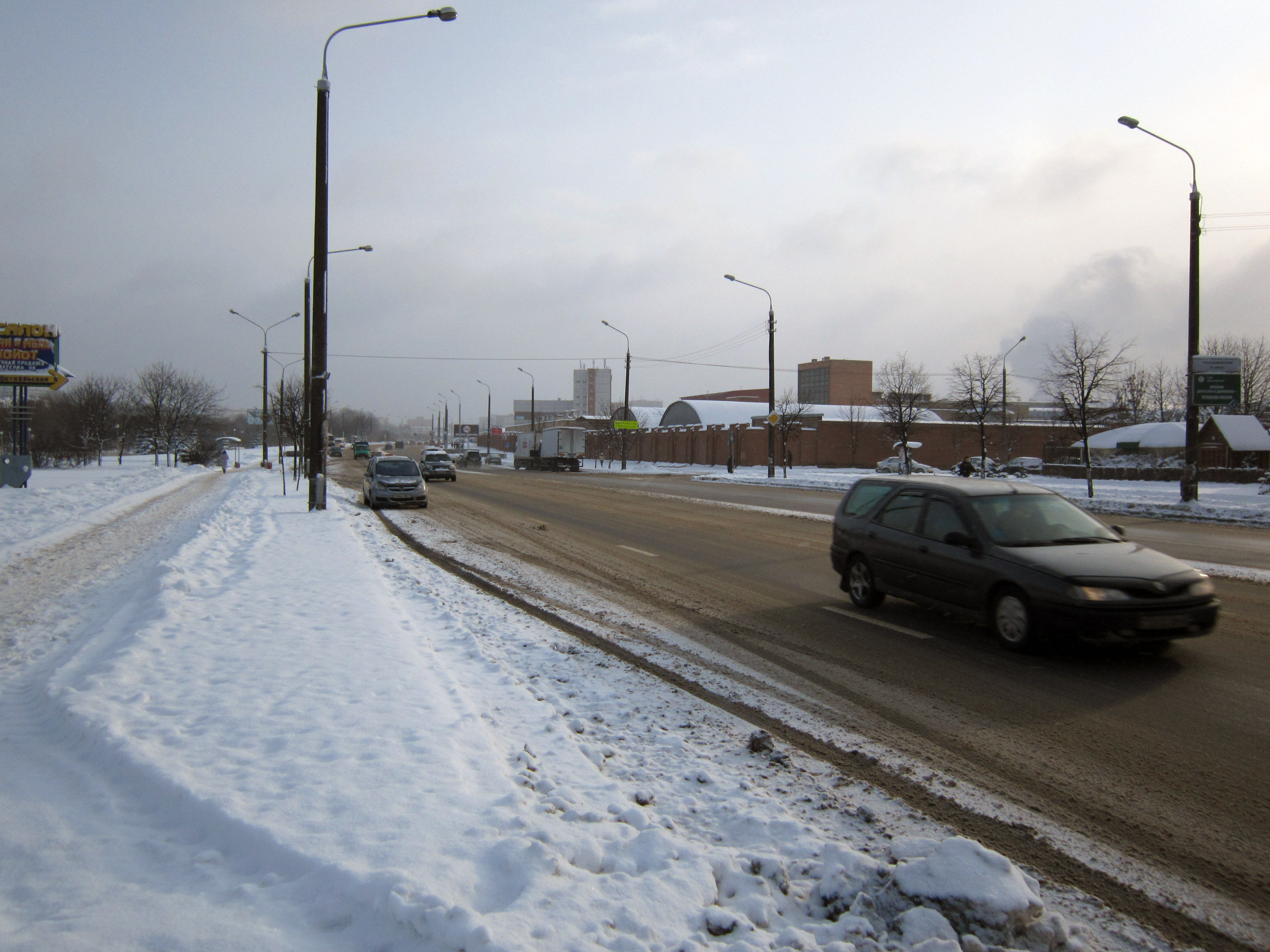 Lenin street in Minsk